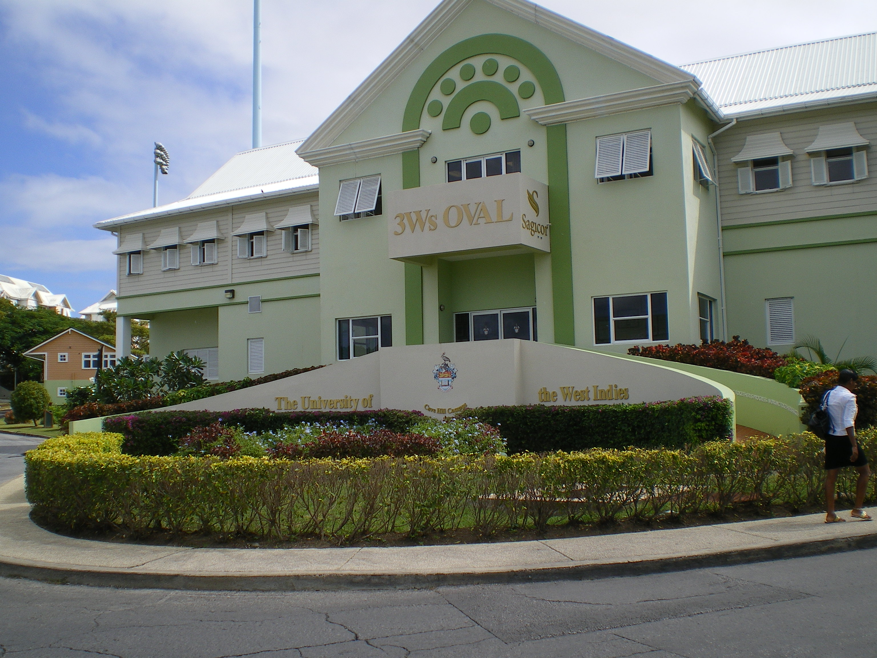 A photograph of the entrance to the w:3Ws Oval, located on the campus of the University of the West Indies in Cave Hill, Barbados.